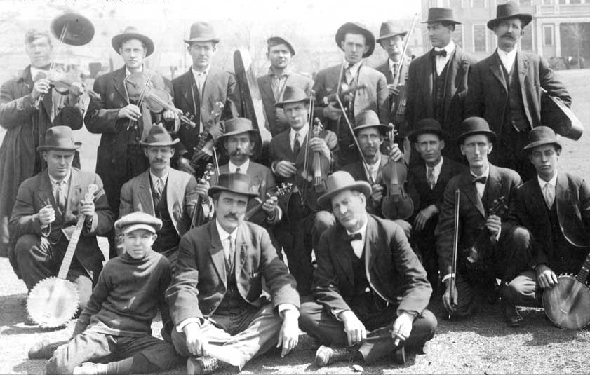 The Atlanta Fiddler's Convetion, photo in 1914